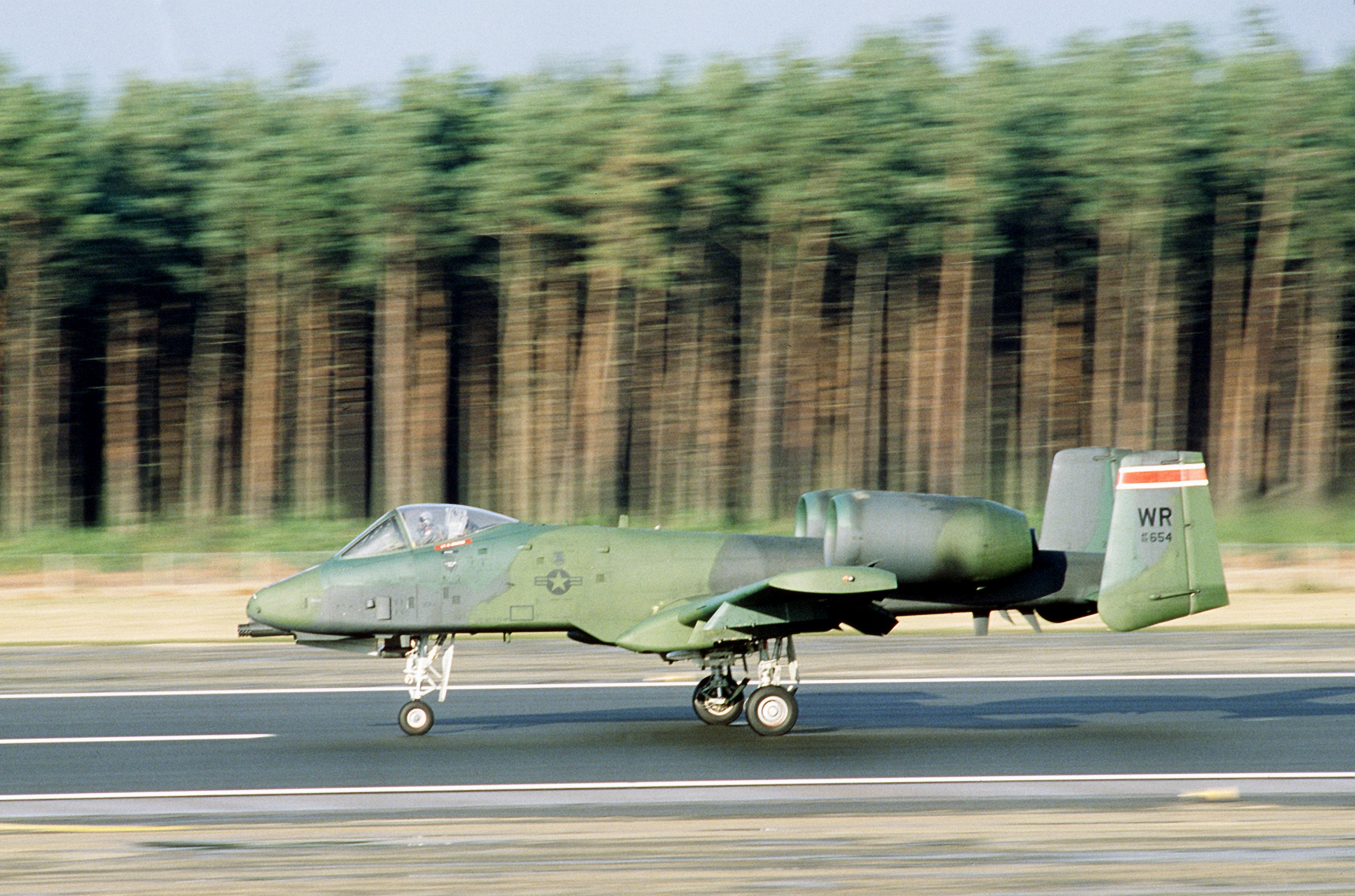 A U.S. Air Force Fairchild Republic A-10A Thunderbolt II aircraft (s/n 78-0654) from the 78th Tactical Fighter Squadron, 81st Tactical Fighter Wing, prepares for take off during exercise "Reforger '86".